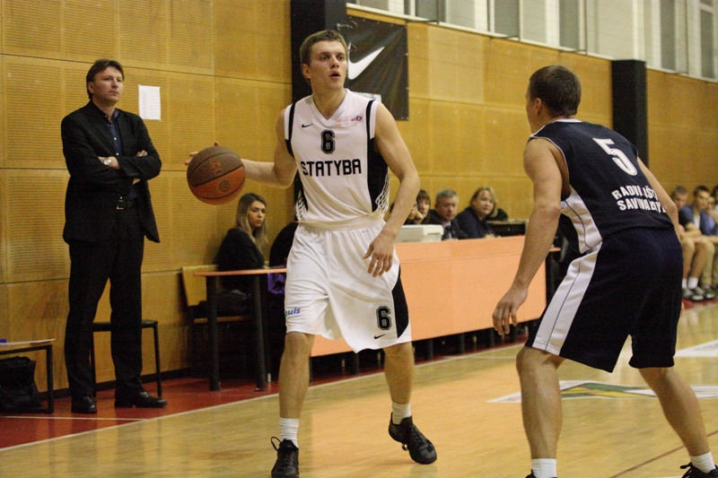 A moment of NKL (Lithuanian Second Division) game between Statyba Vilnius and Radviliškis